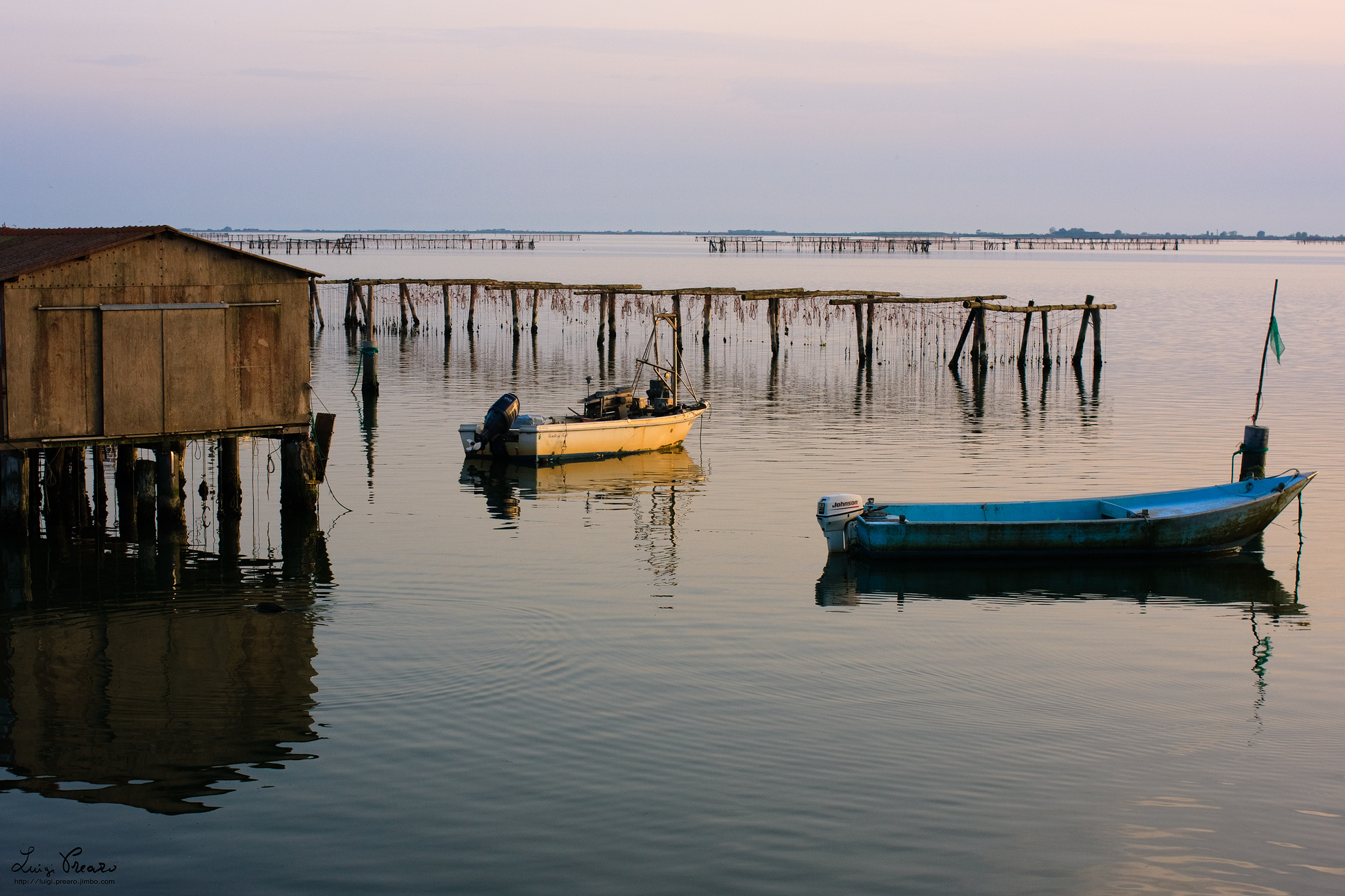 Scardovari's landscape (island of Donzella - Porto Tolle) – Italy.